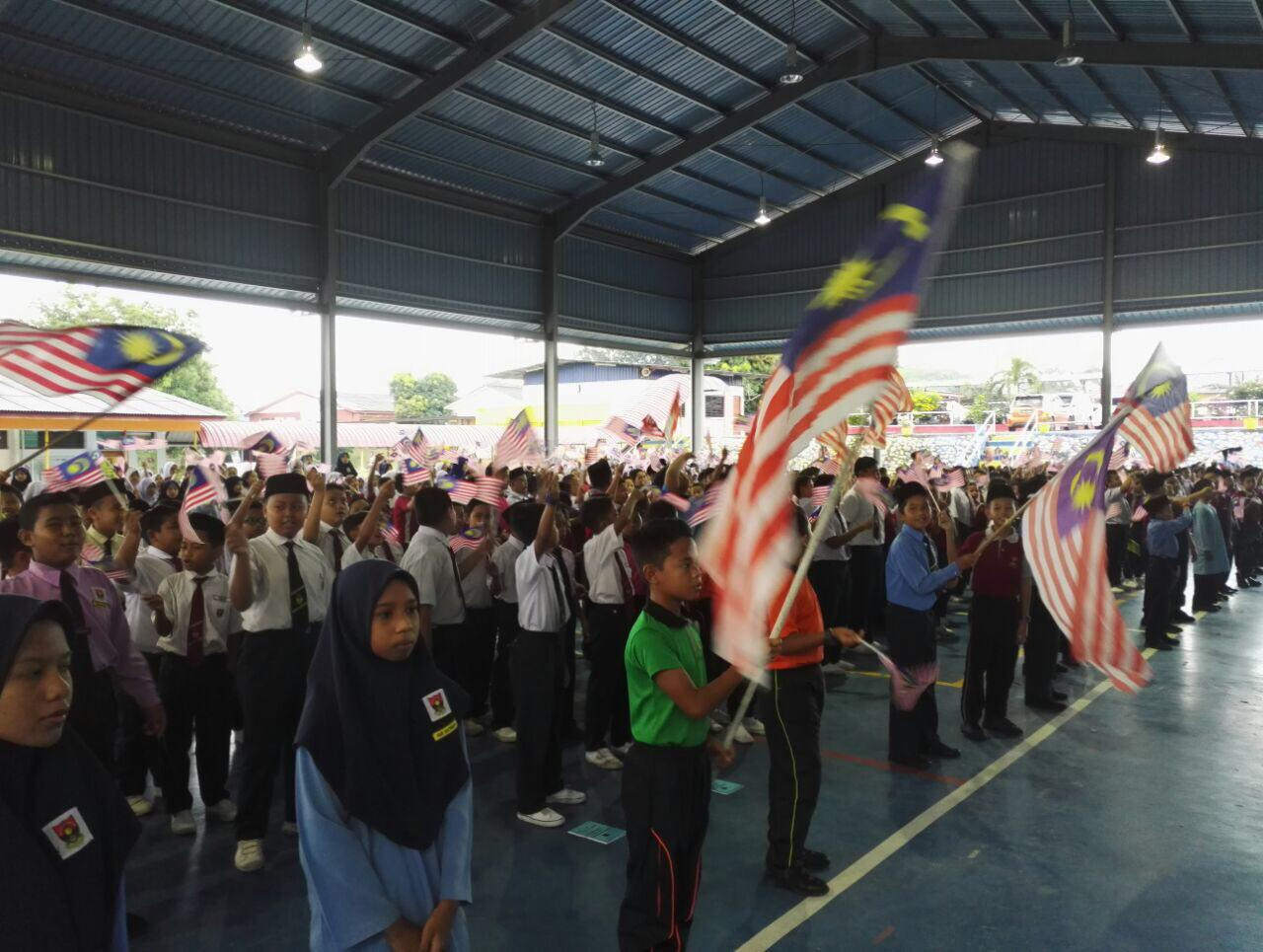 Mengibar Jalur Gemilang